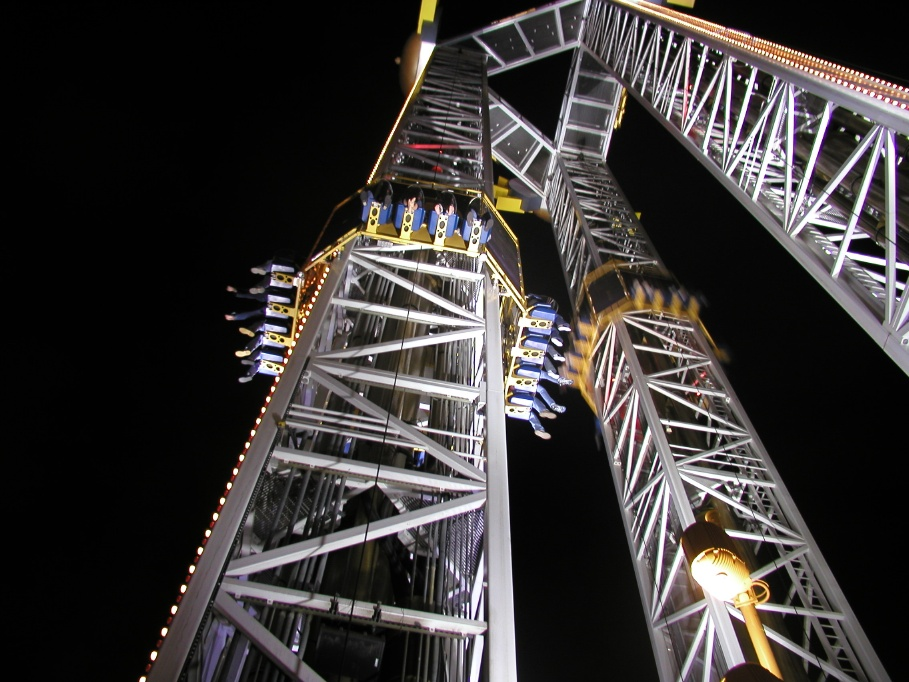 Maliboomer shoots two carrages at Night. Taken from Image:DCA Maliboomer.jpg